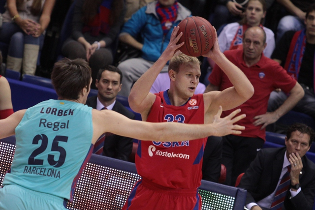 Russian bball player